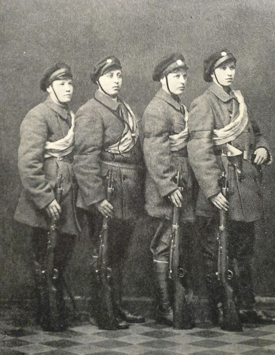 Members of the 1918 Finnish Civil War Vyborg Women's Red Guard.